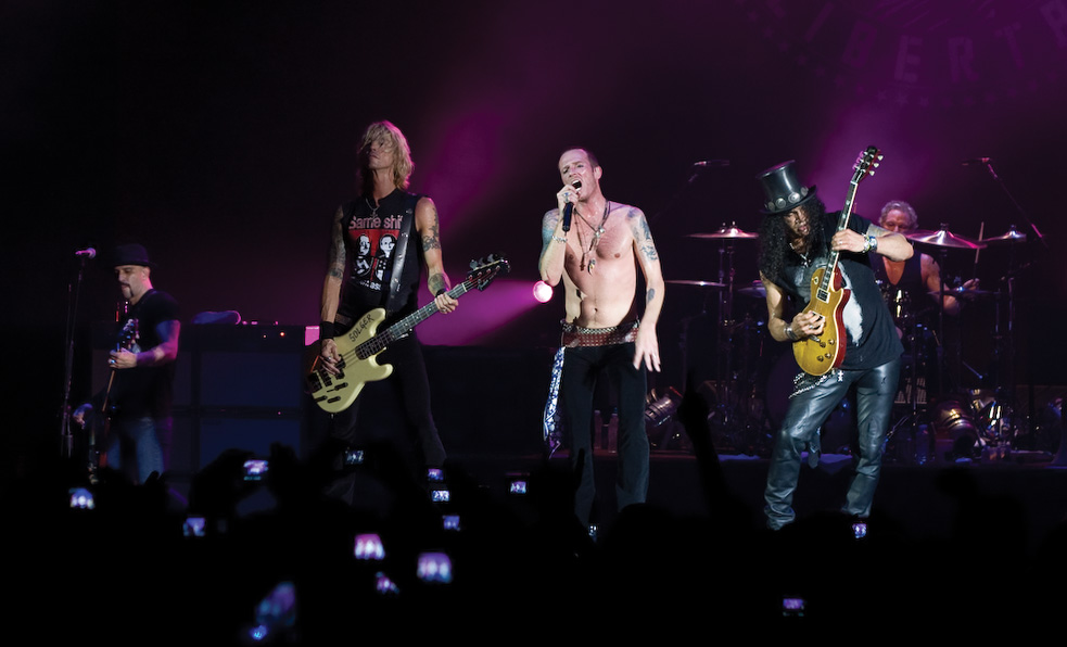 Velvet Revolver performing at Hammersmith Apollo, London 5 June 2007 (L to R): Dave Kushner, Duff McKagan, Scott Weiland, Slash, Matt Sorum